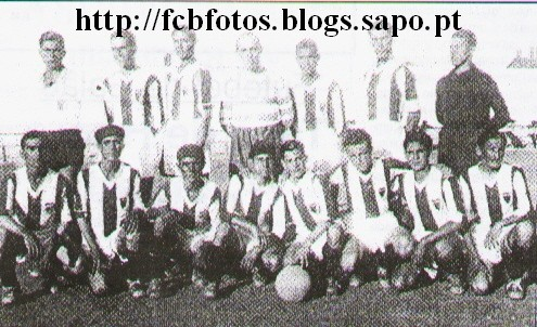 Barreirense 1938-1939